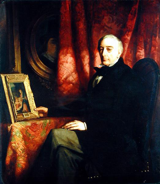 Portrait of the art collector Nicolaus Hudtwalcker (Hamburg) by Ferdinand Heilbuth